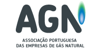 Logo of the Associação Portuguesa de Empresas de Gás Natural (AGN)